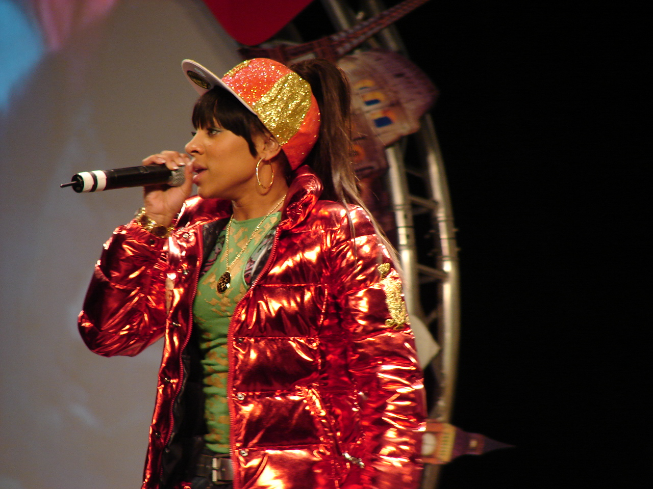 Lil Mama in Ed Hardy Fashion Show 2008.